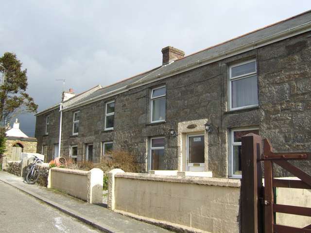 Terraced cottages, Trewennack By what used to be the main road; now thankfully bypassed.